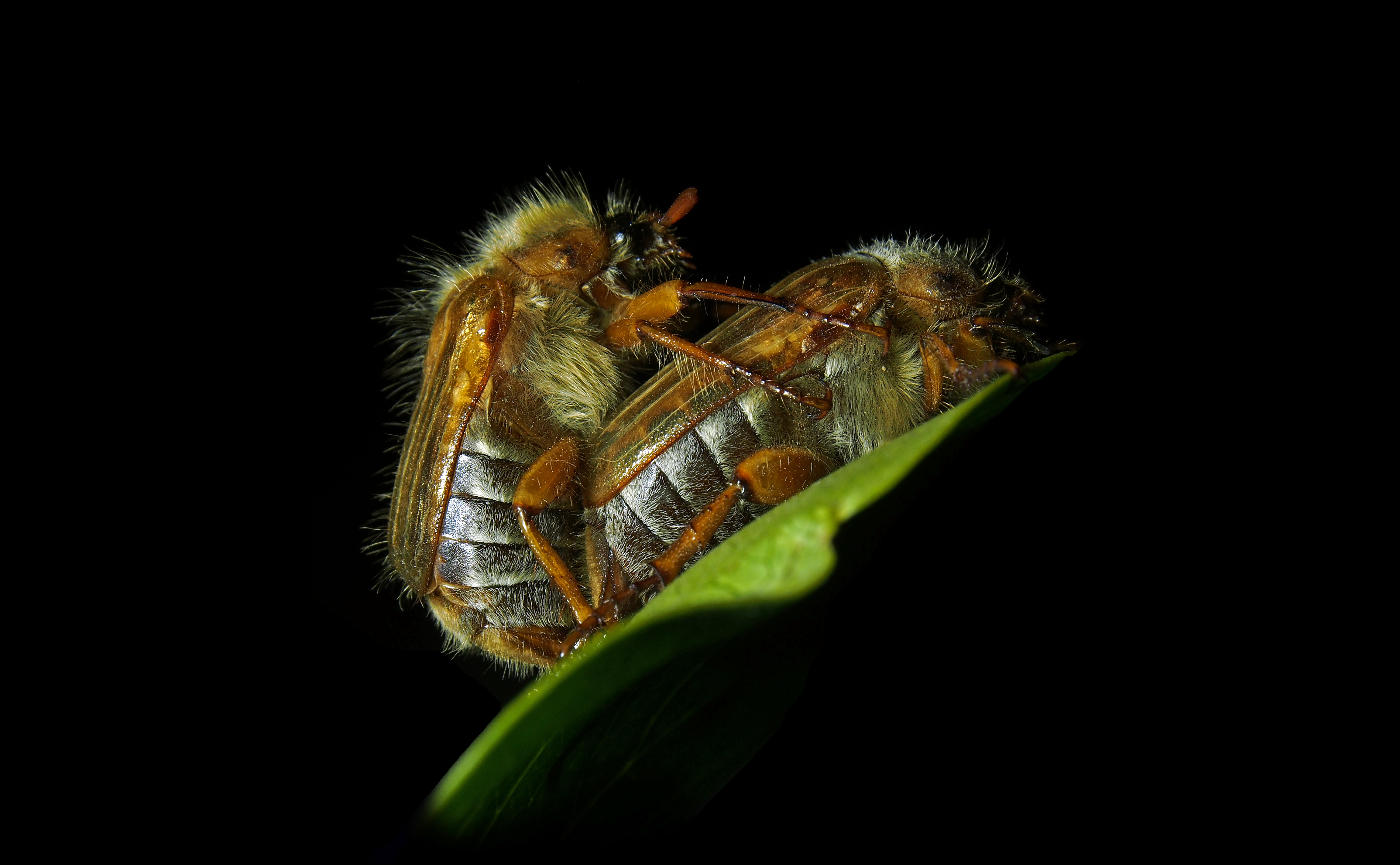 June beetle copulation